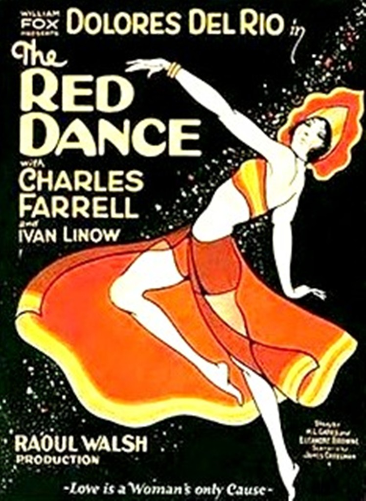 Poster of the American drama film The Red Dance (1928).